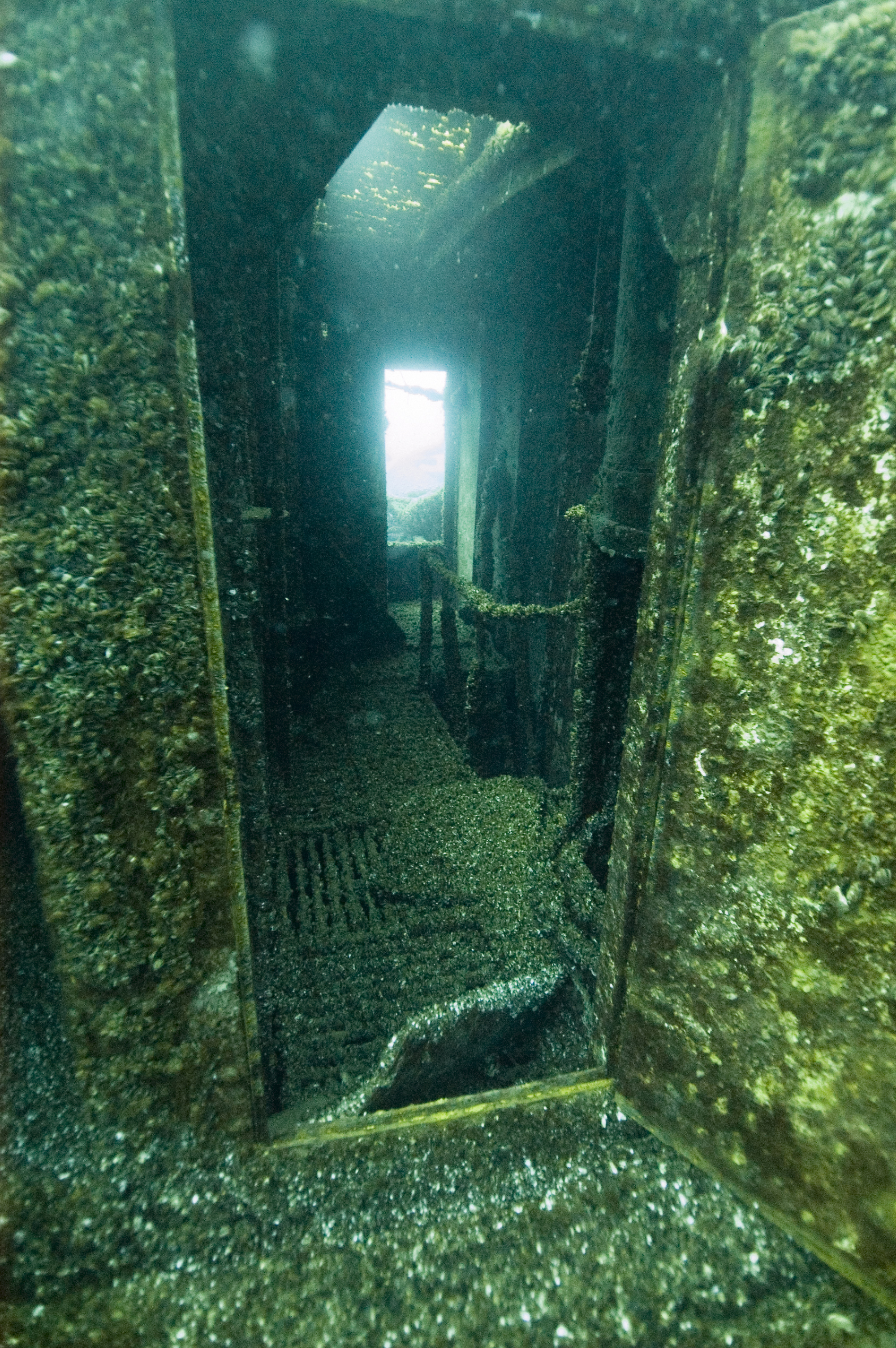 The MONROVIA is one of the few ocean vessels that sank in Thunder Bay National Marine Sanctuary. Built in Scotland in 1943, it only had a short 16 years on the water. On a foggy day in 1959, the MONROVIA was rammed by a freighter. The damage was irreparable and the vessel sank. Today the wreck is still largely intact except for the collision damage. To see more images of the MONROVIA and a short video of its wreck today, visit Thunder Bay National Marine Sanctuary.